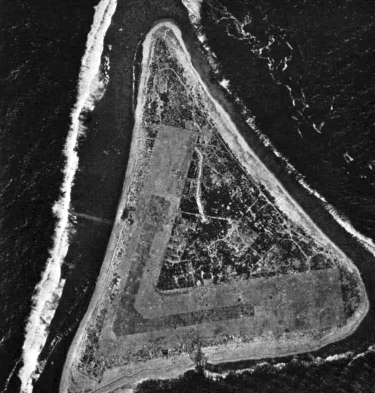 Aerial view of the Japanese airfield at Marcus Island (Minami Torishima).